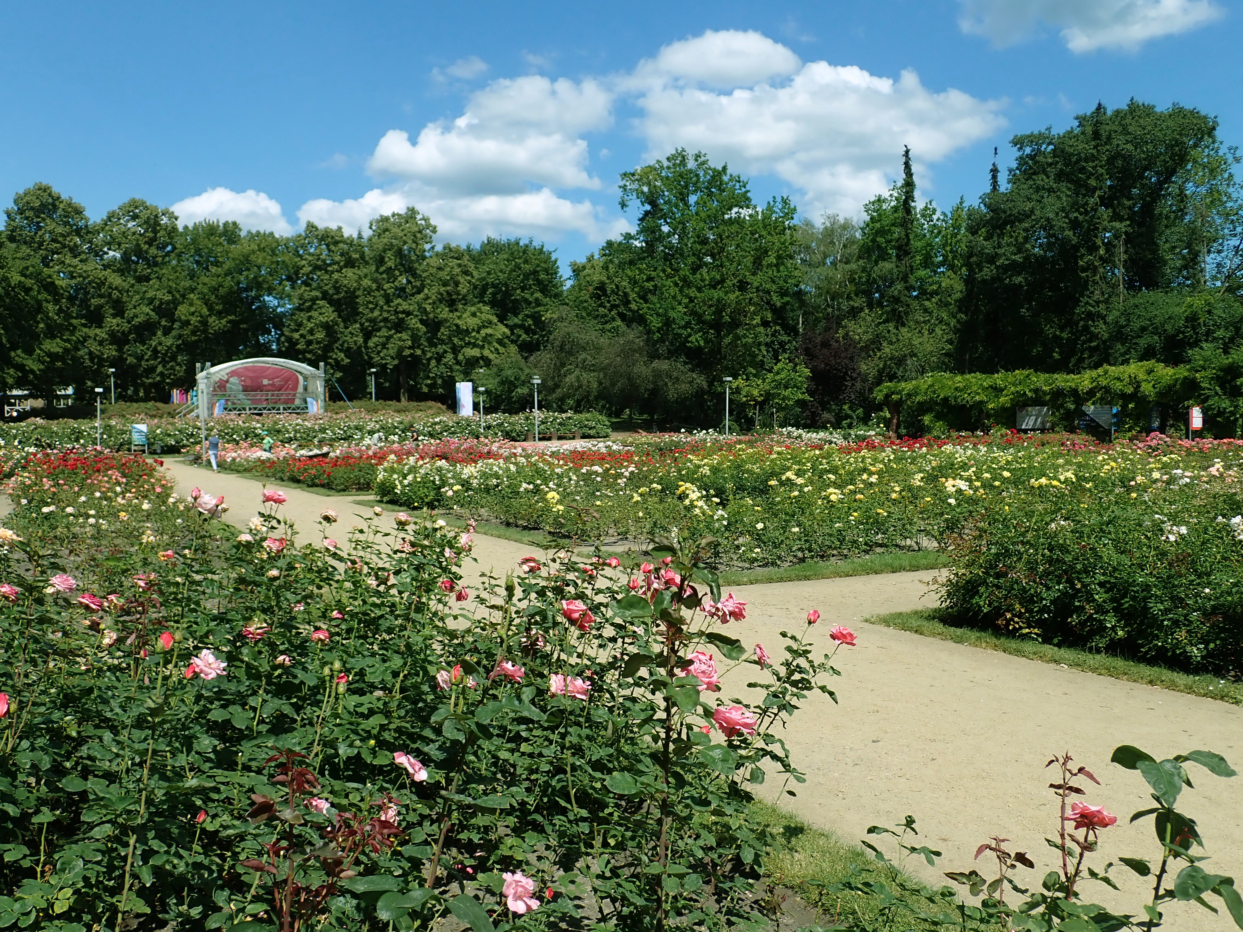 Rose garden in Szczecin, West Pomeranian Voivodeship, Poland.